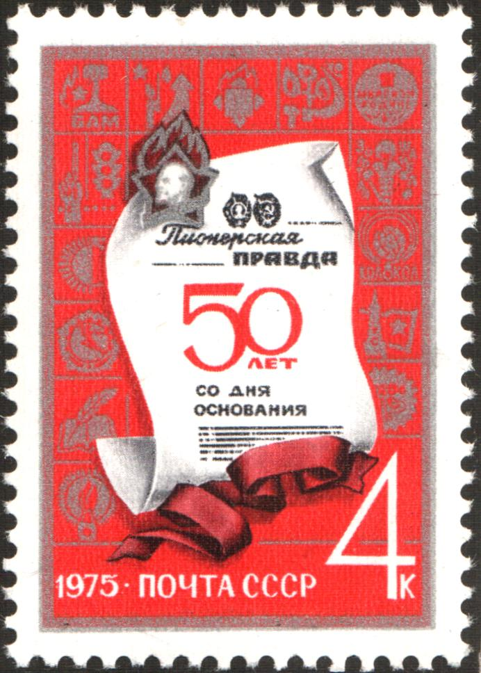 USSR stamp: Masthead of “Pionerskaya Pravda” and Pioneer Badge. Series: 50th Anniversary of the Newspaper “Pionerskaya Pravda” (founded 1925.03.06)